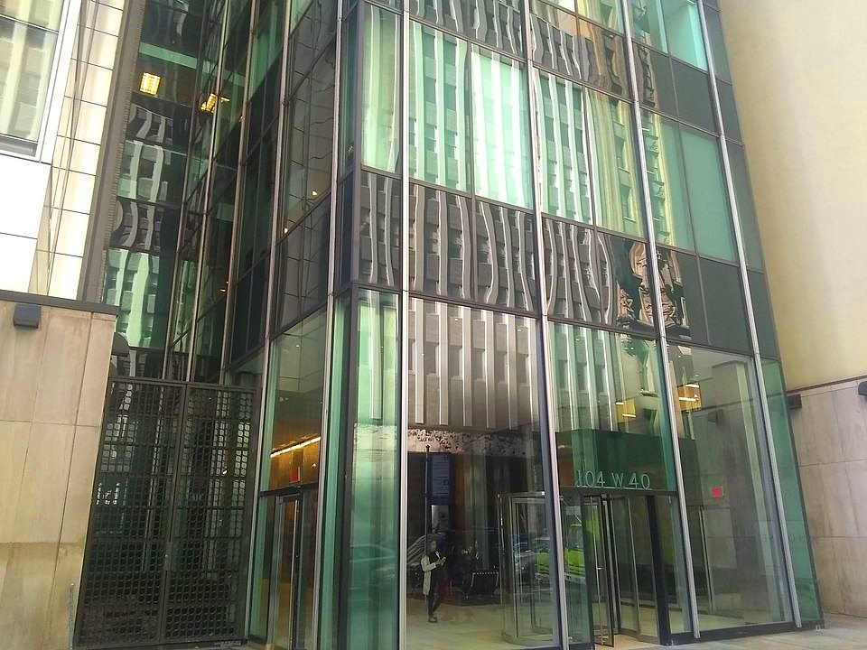 104 West 40th Street (also known as Springs Mills Building) in Manhattan, New York, seen in October 2019